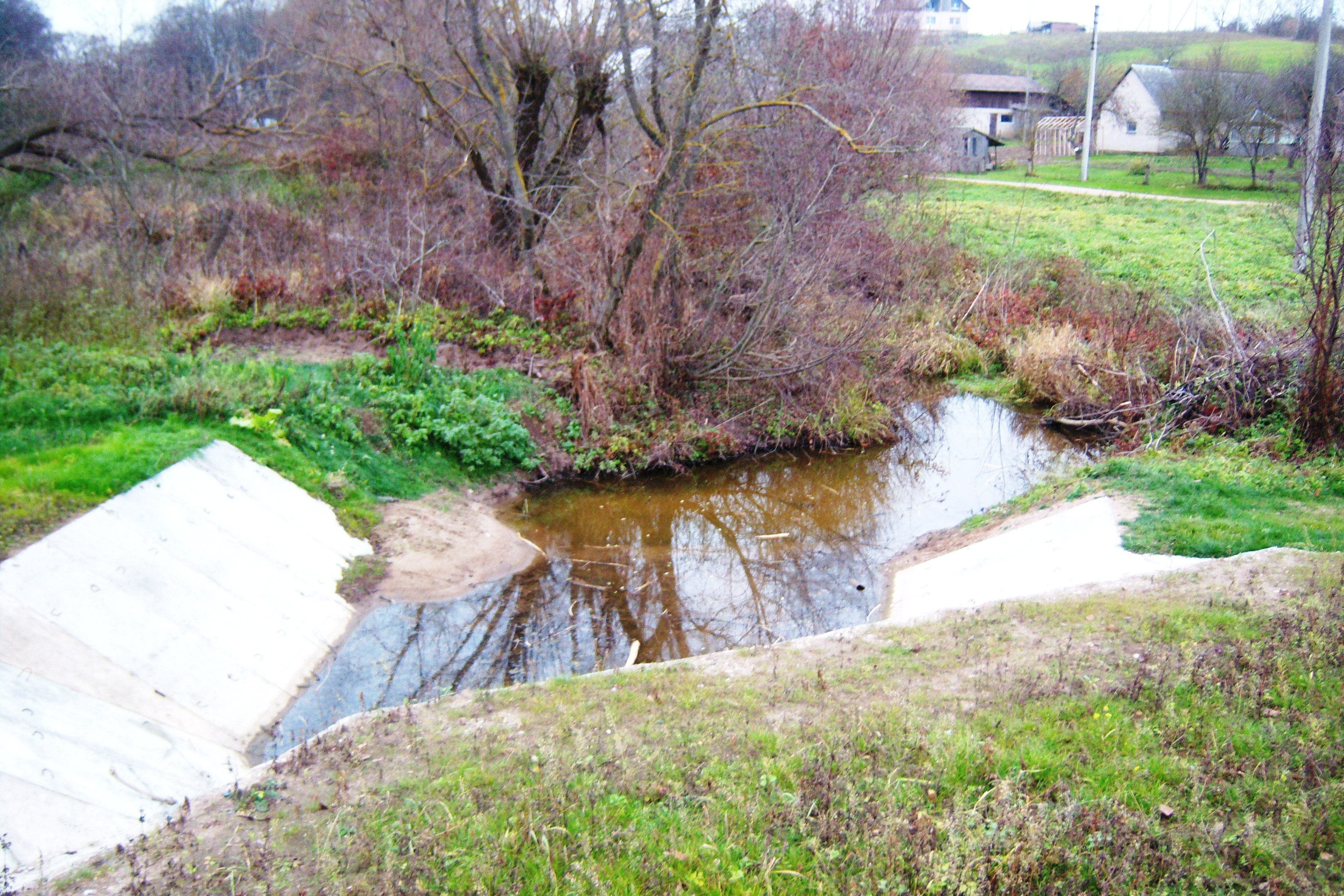 Strebukas River in Panevėžiukas, Kaunas District. Lithuania